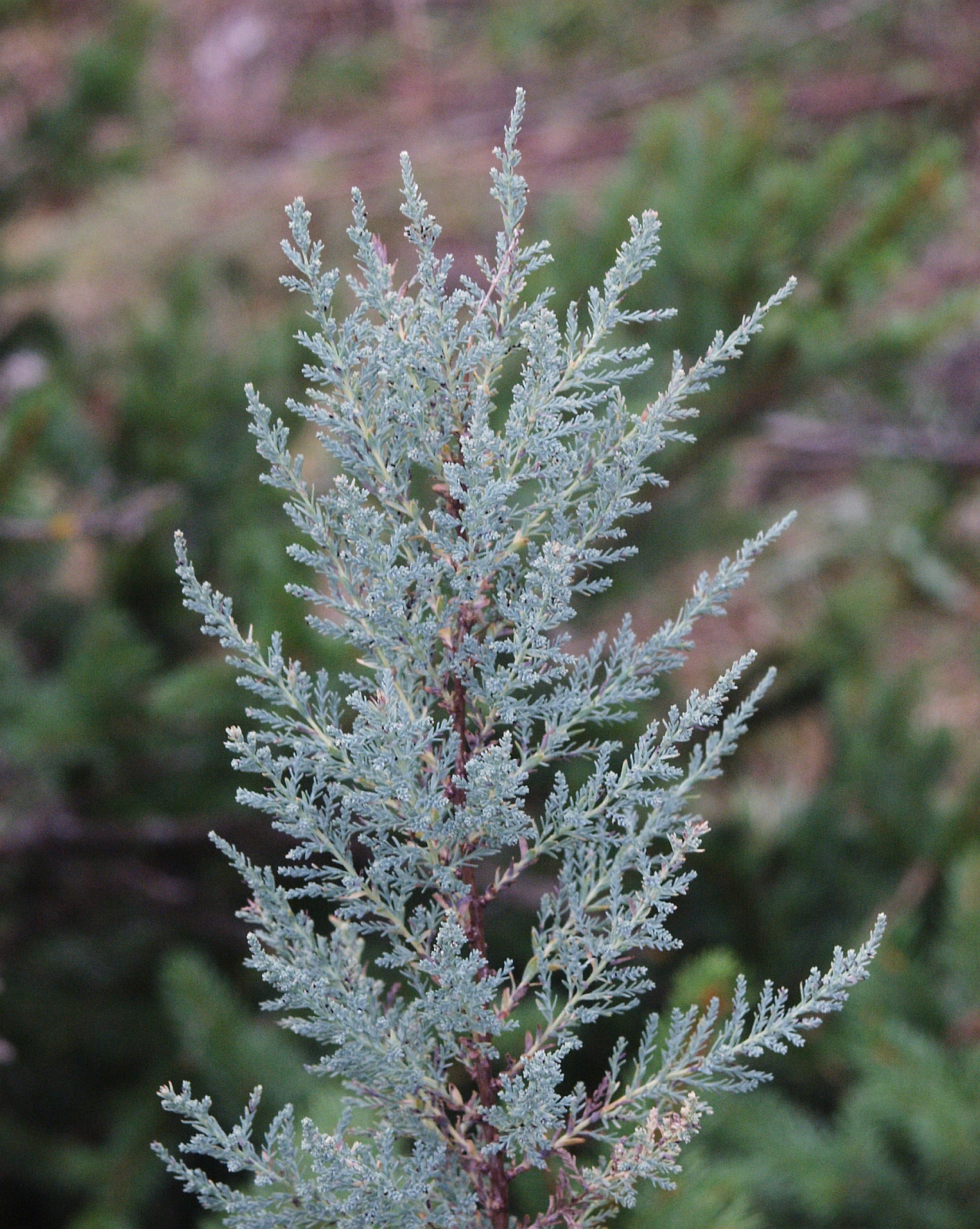 Myricaria germanica, South Tyrol, Italy